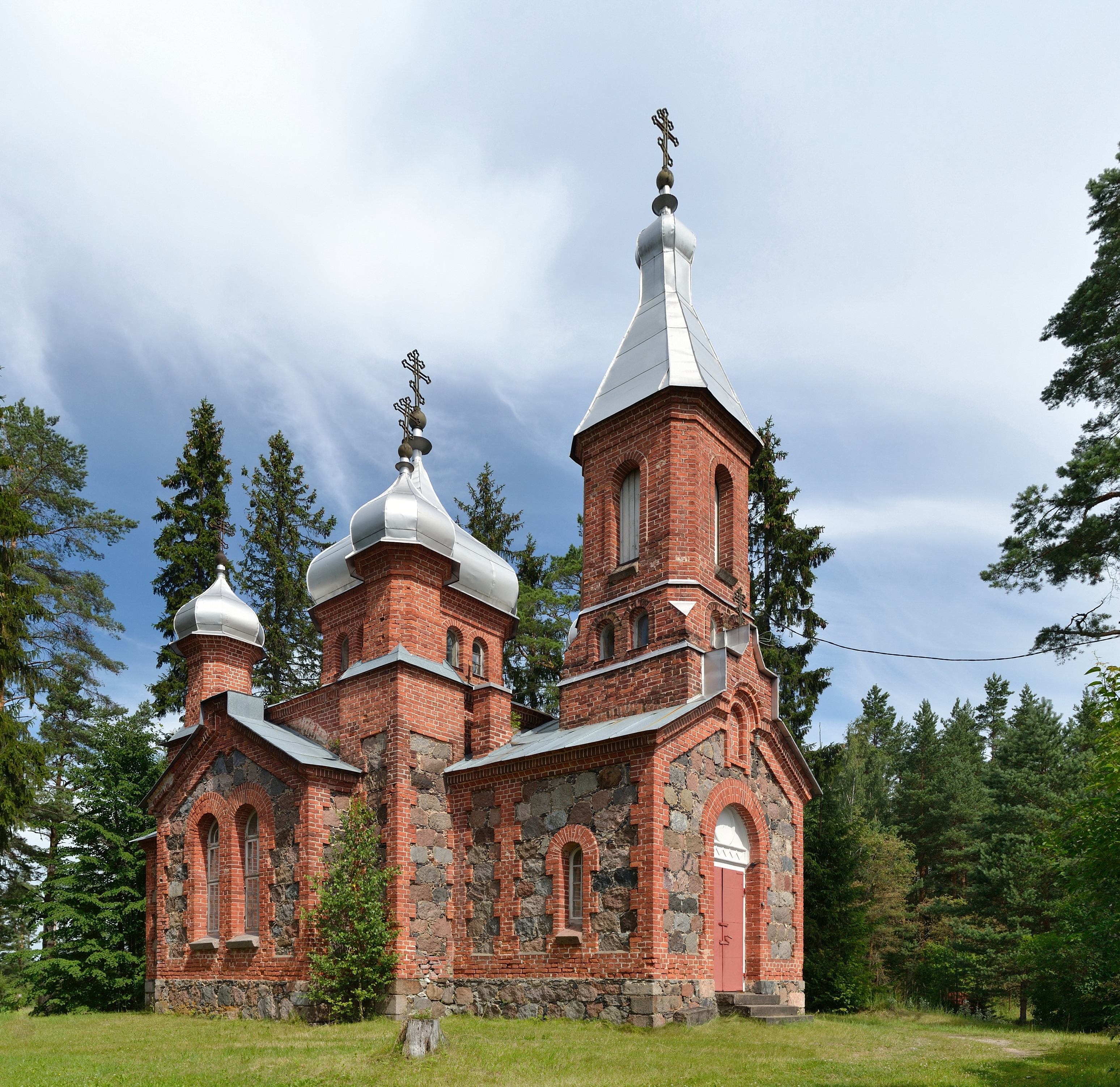 Kärsa orthodox church, built in 1878.